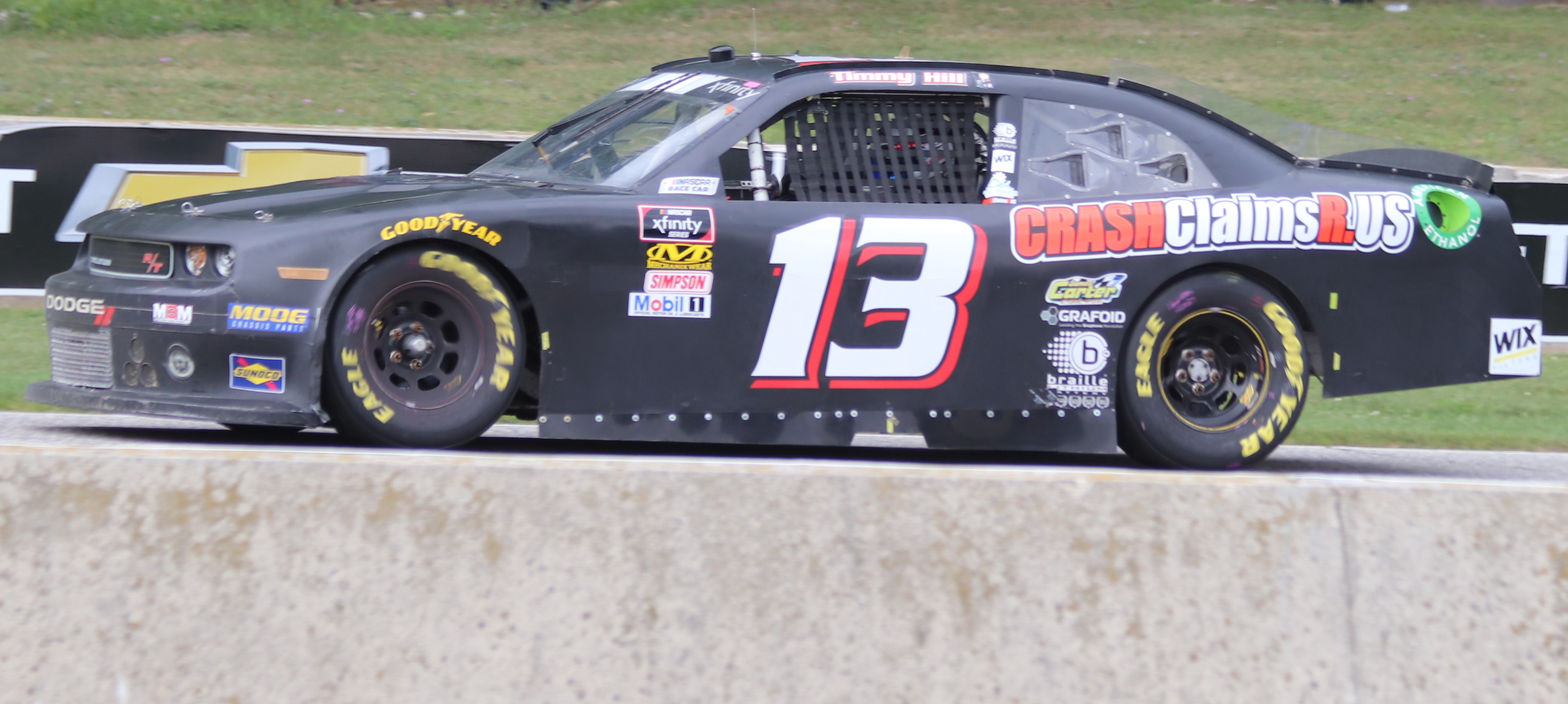 The Dodge Challenger of Timmy Hill at the NASCAR Xfinity Series Johnsonville 180.